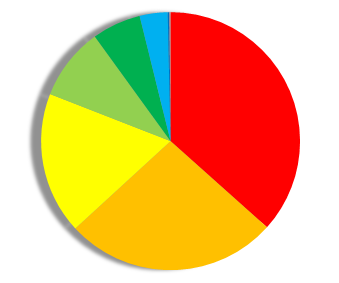 Expressed as a pie chart in the Tokyo gubernatorial election in 1995, the number of votes for each candidate. explanatory notes ■ - Yukio Aoshima ■ - Nobuo Ishihara ■ - Tetsundo Iwakuni ■ - Yasushi Akashi ■ - Kenichi Ohmae ■ - Tetsu Ueda ■ - Fumiko Mekata ■ - Setsuo Yamaguchi